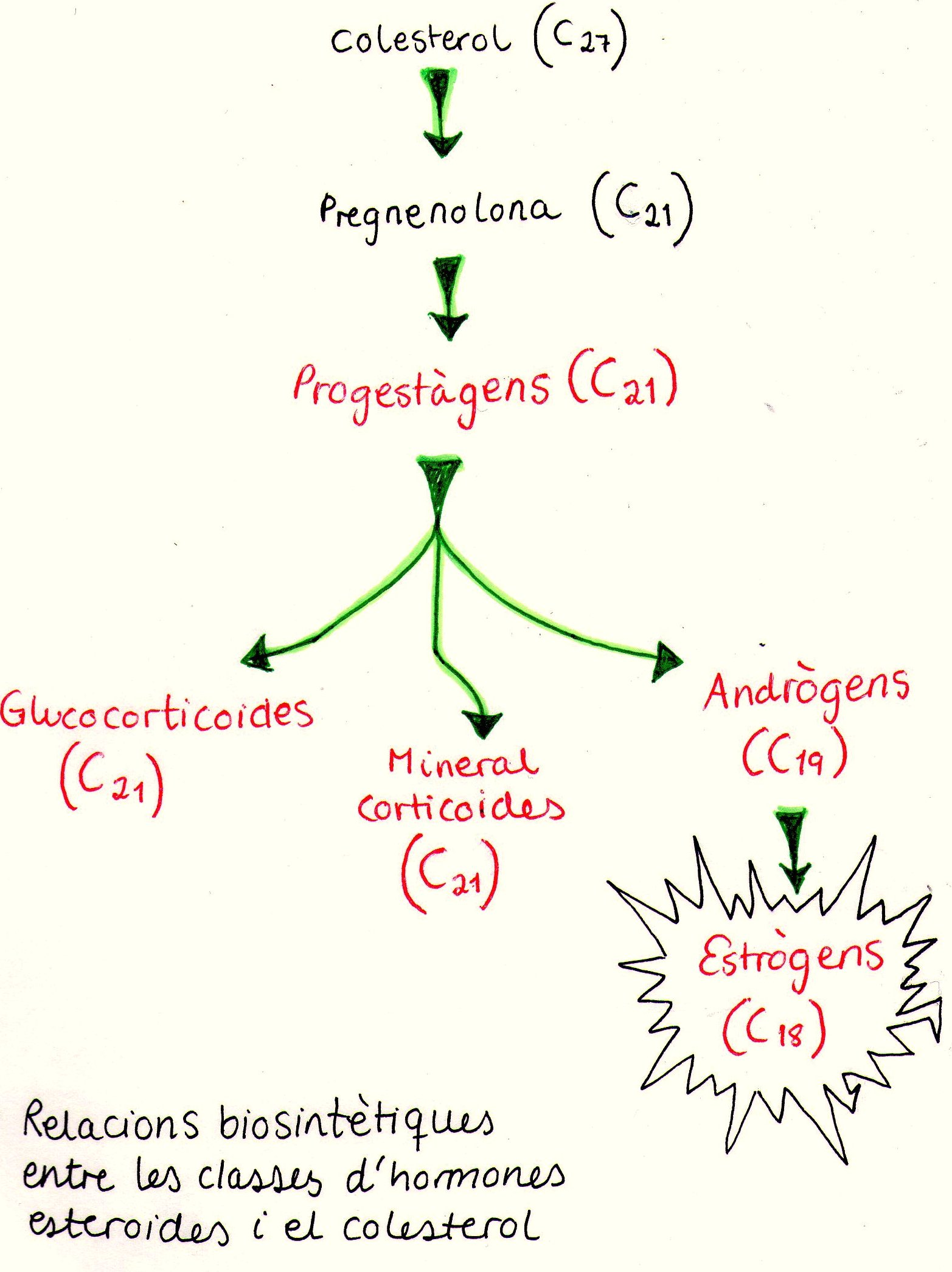 Estrogens